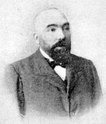 Spanish jurist Aniceto Sela Sampil (1863-1935)